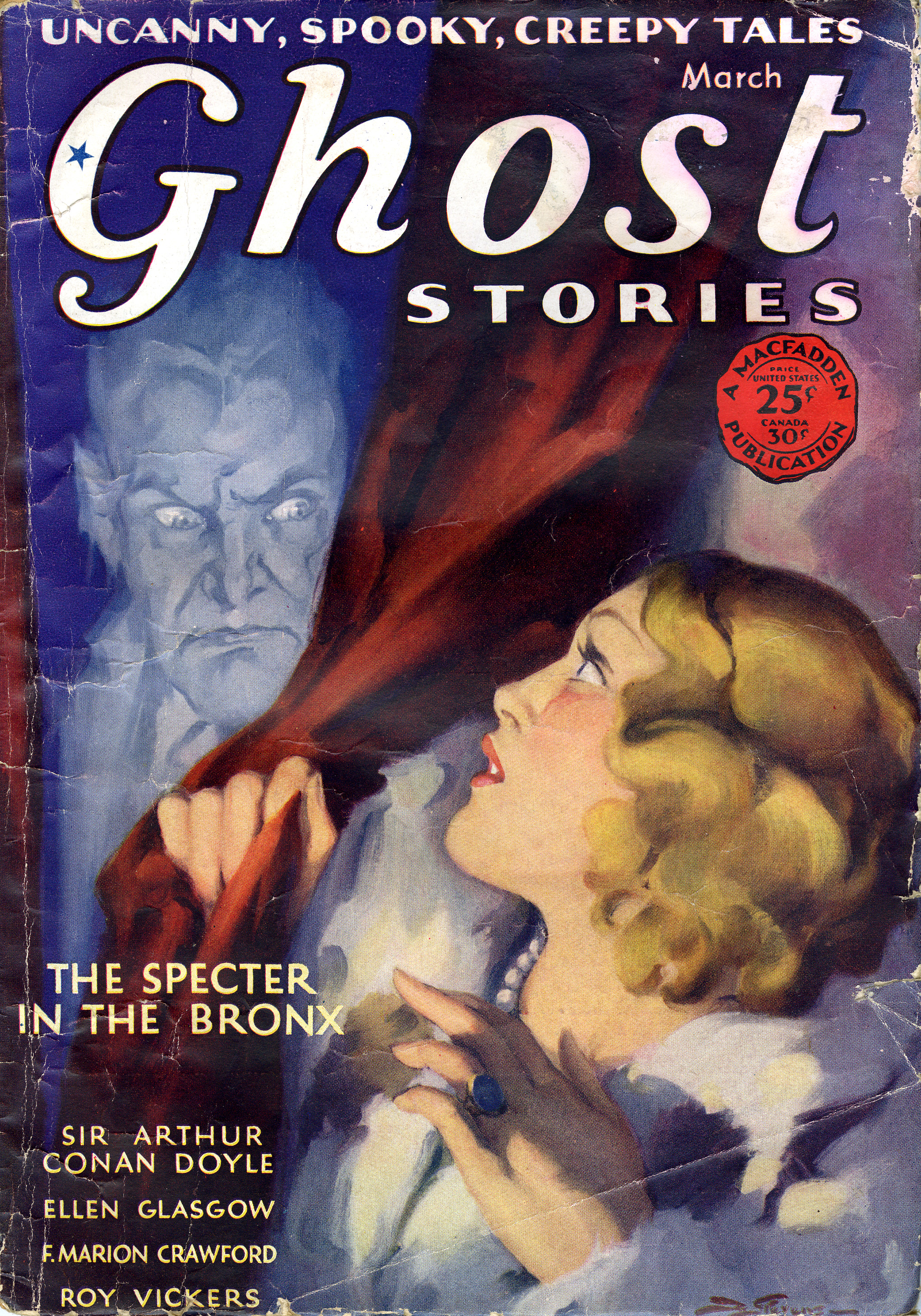 Cover of the pulp magazine Ghost Stories (March 1930, vol. 8, no. 3) featuring "The Specter in the Bronx."